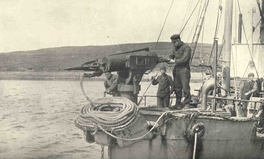 Modern Whaling Cannon Loaded with Harpoon, and Ready to Fire Subject: Whaling, Whaling ships Tag: Aquatic Mammals